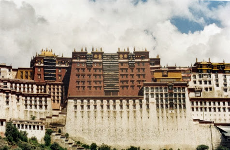 Potala palace in Lhasa